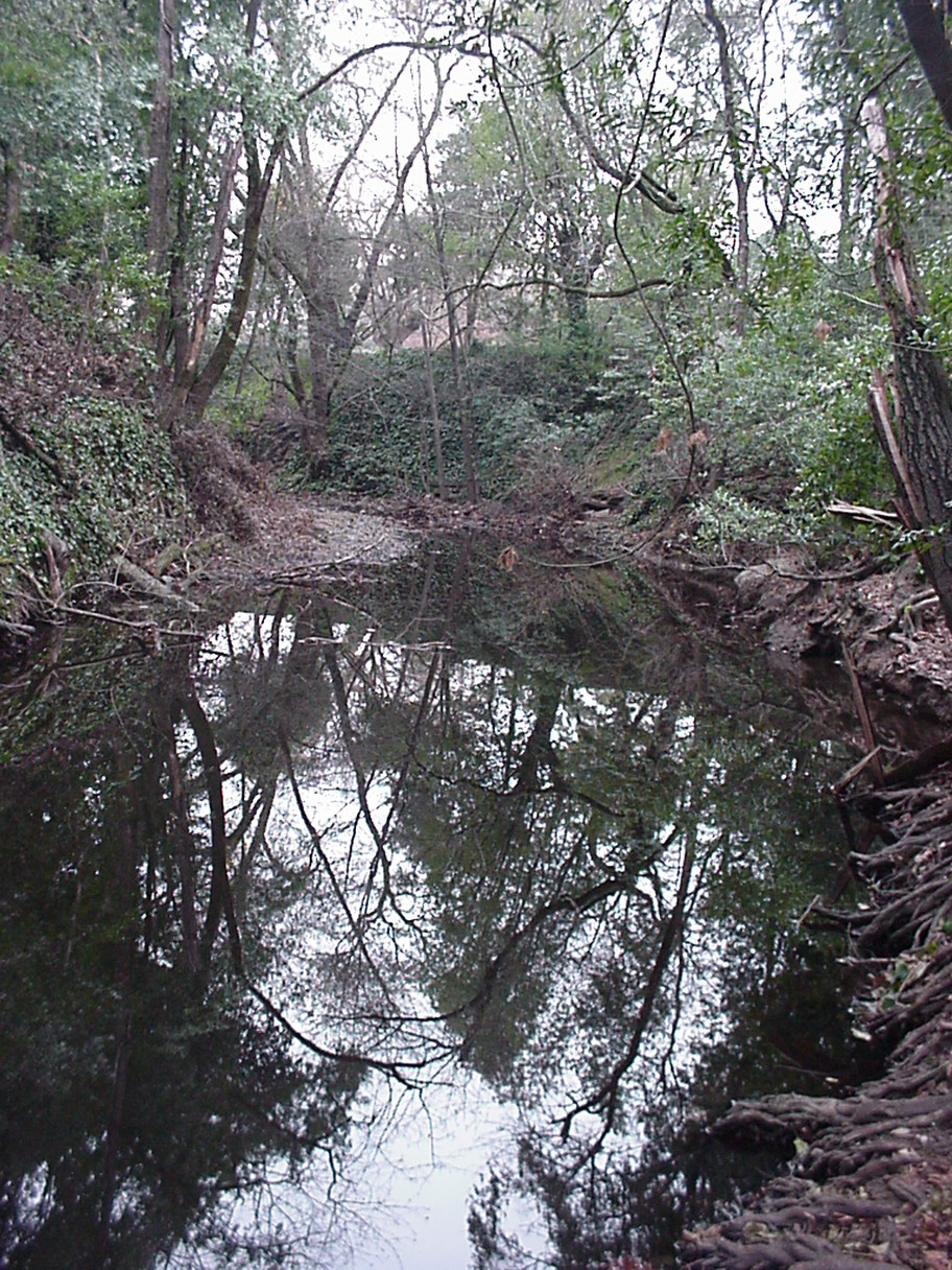 Matanzas Creek adjacent to Doyle Park in Santa Rosa, California. Channel has been deepened by 4 to 5 meters at this location to minimize urban flooding. Steep stream banks of Quaternary alluvium are colonized by non-native ivy.